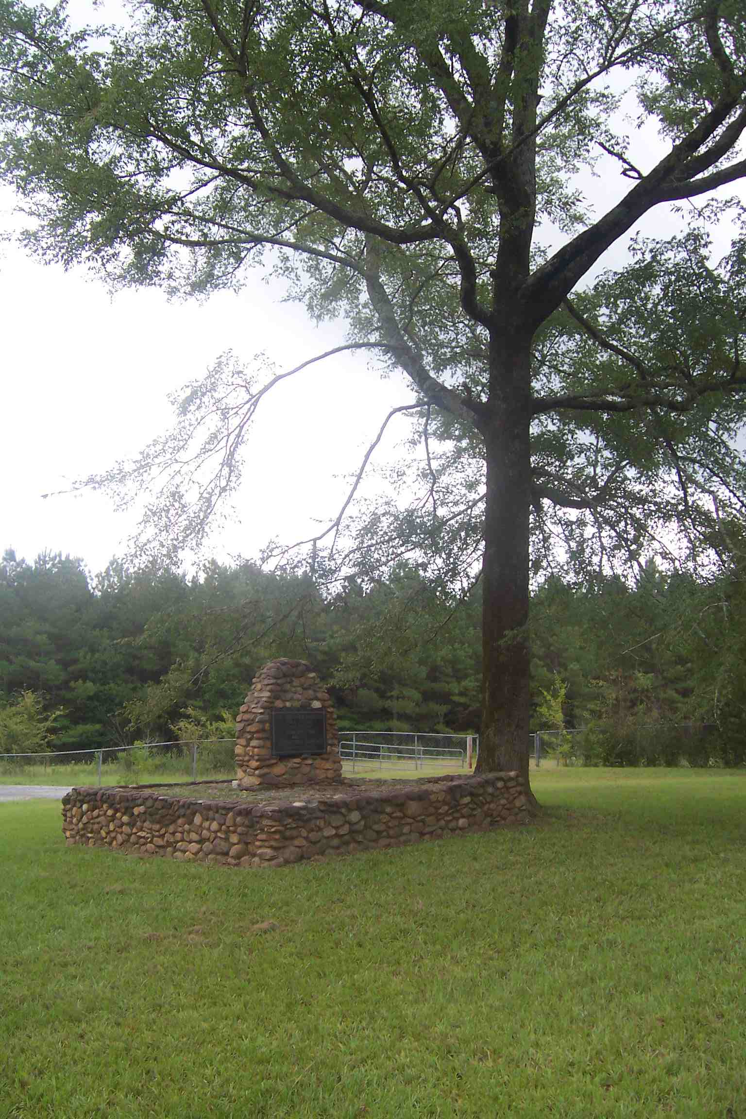 view towards the southwest of Benjamin Hawkins's gravesite